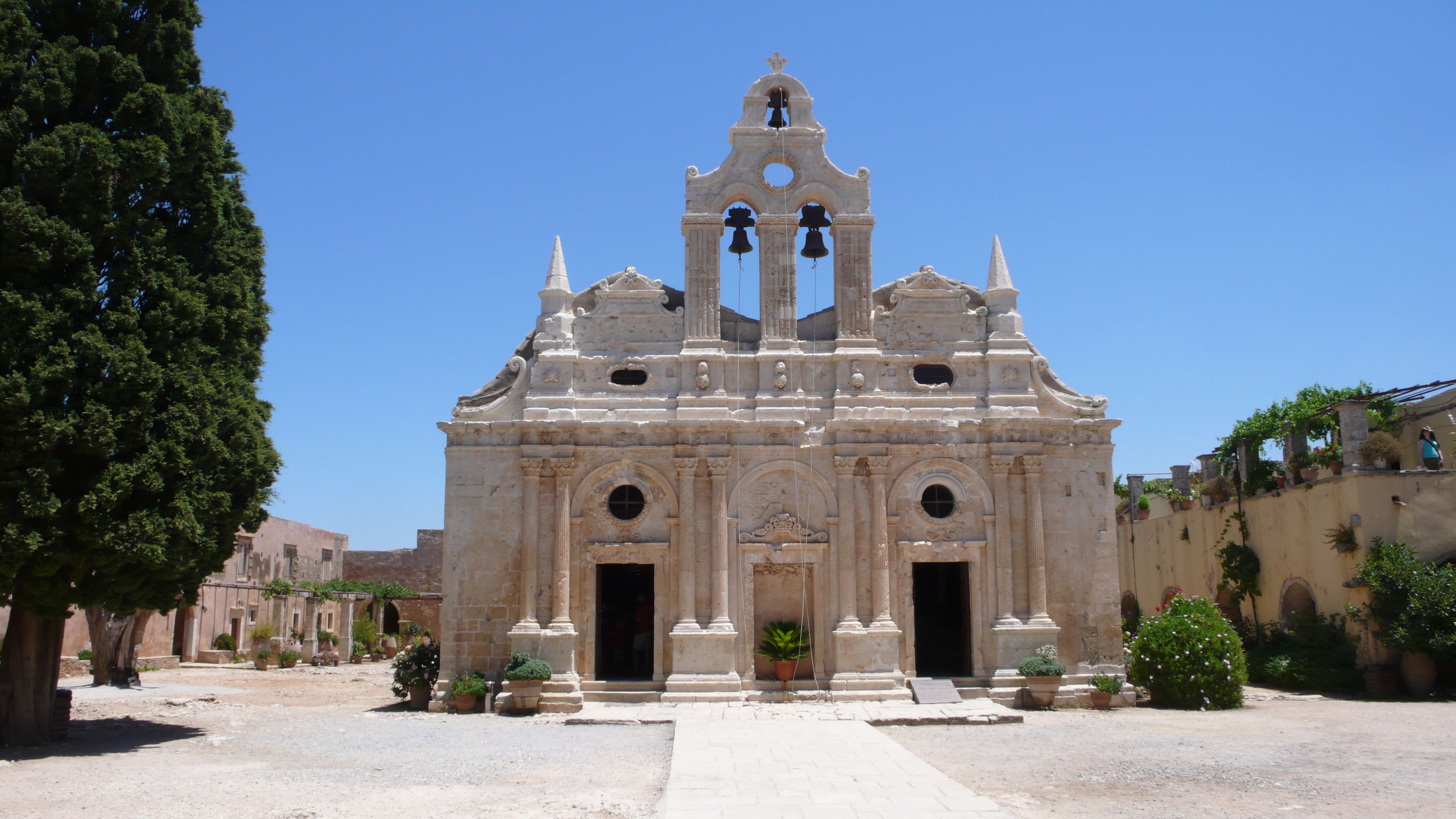 Church of the Arkadi Monastery, Crete